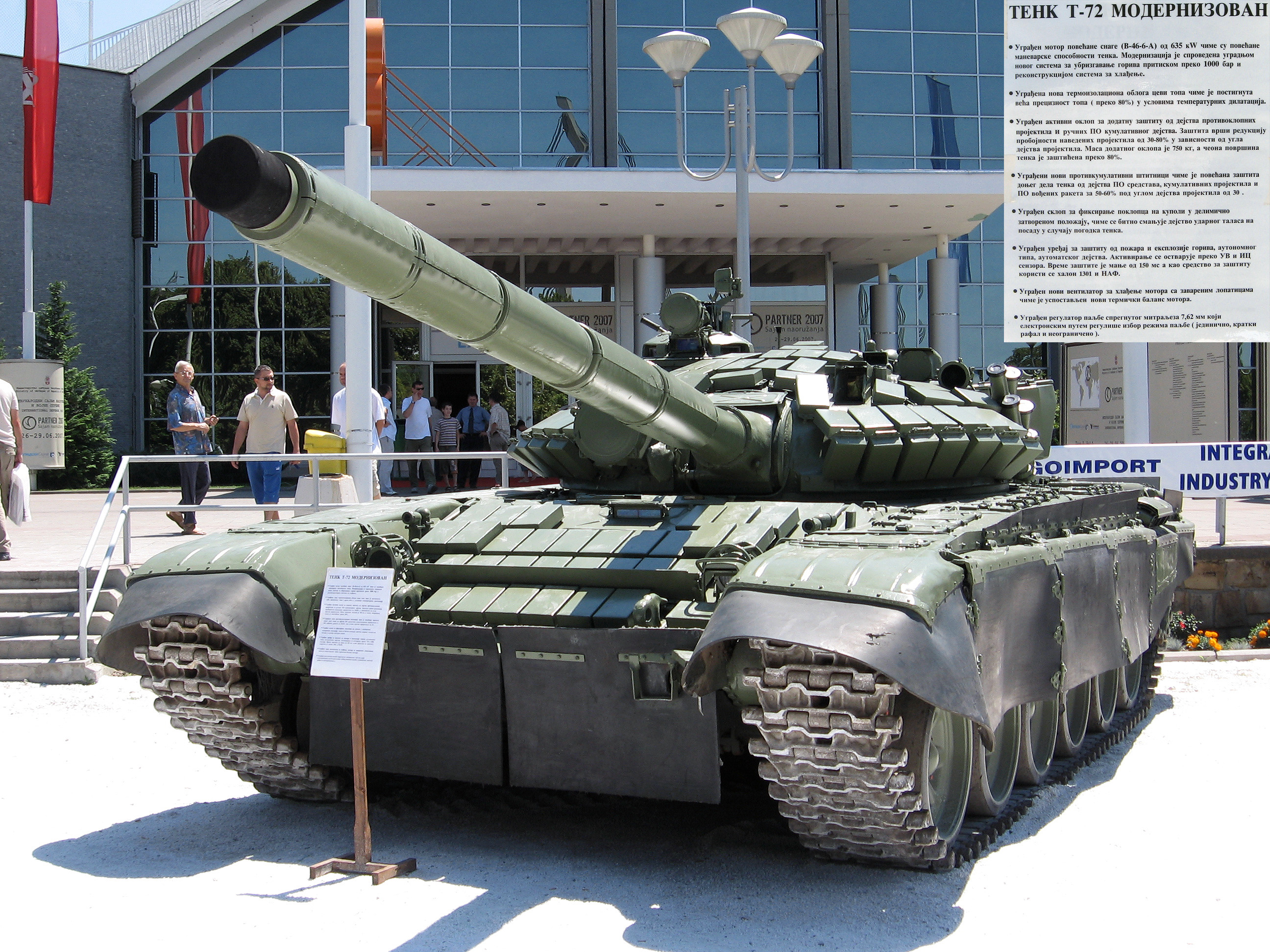 Serbian modification of T-72